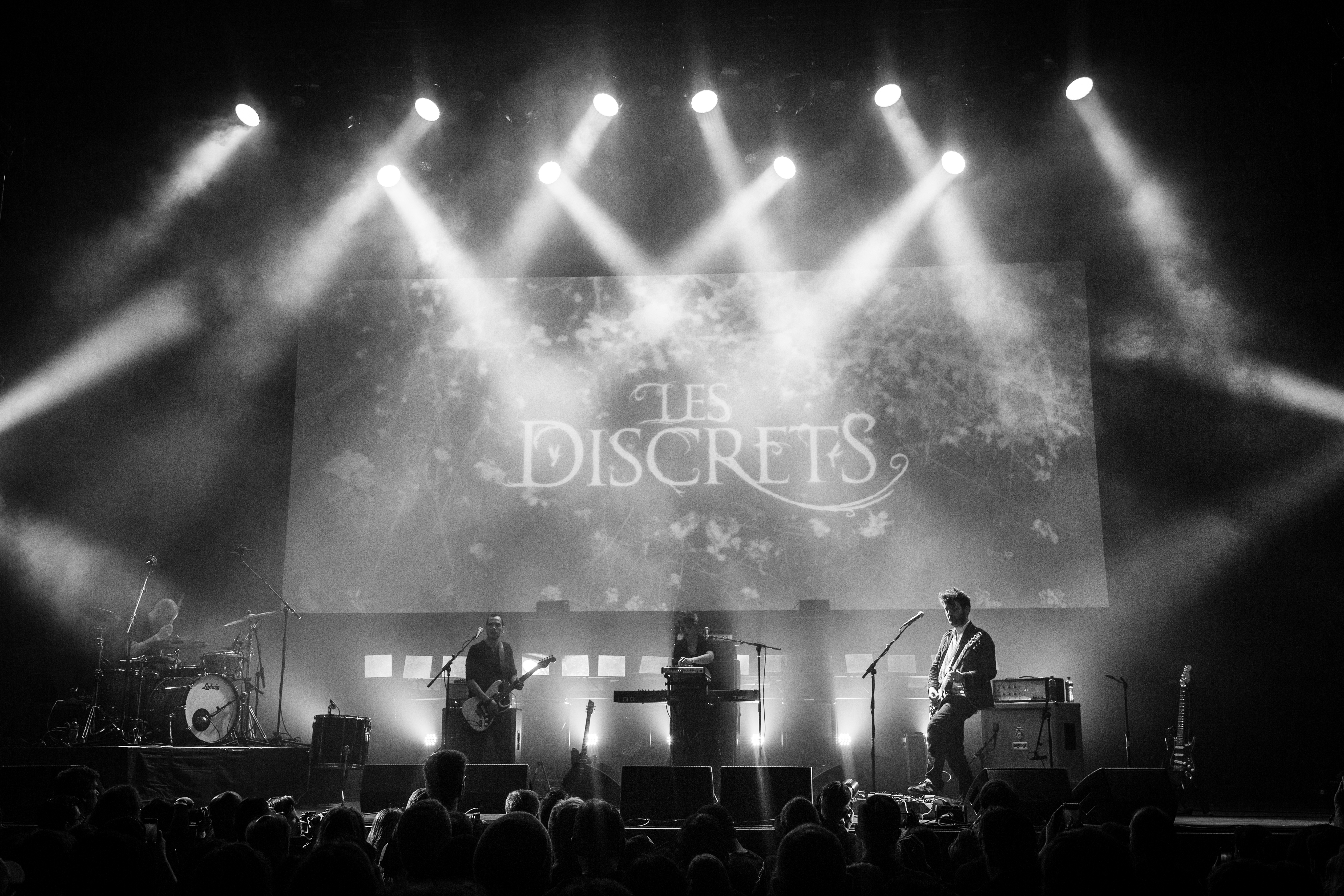 Les Discrets live at Roadburn Festival, Tilburg, April 2017